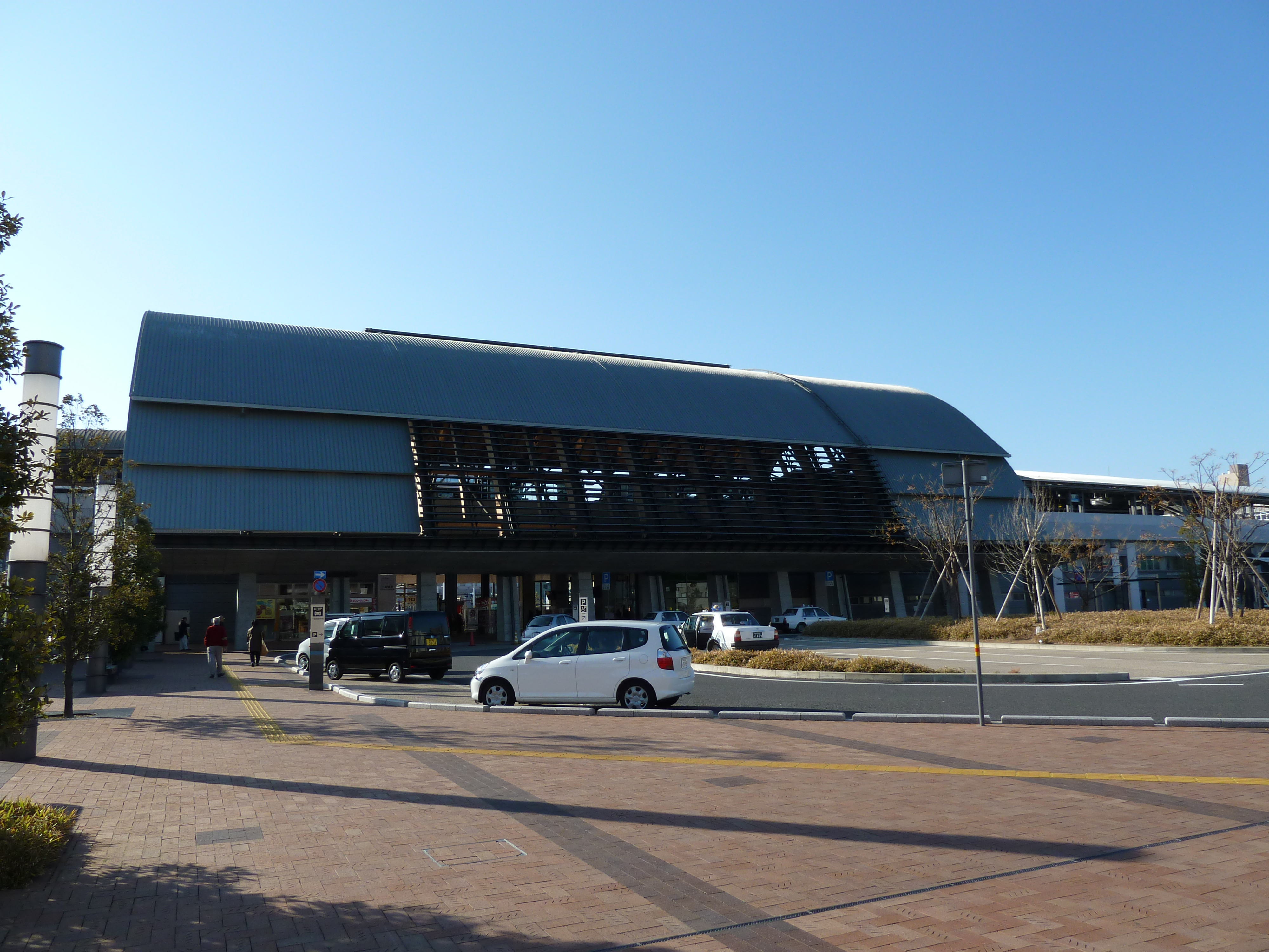 高知駅の北口